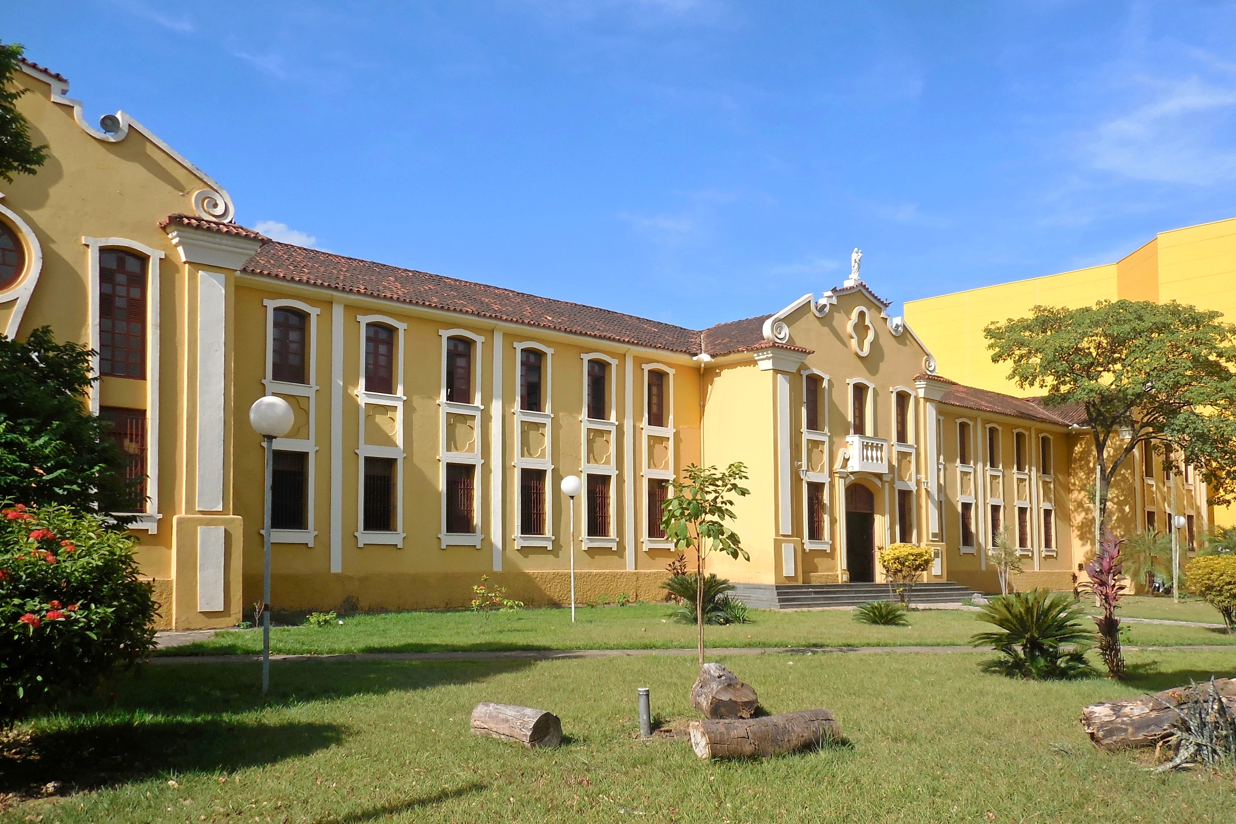 Front of the Colégio Angélica (Angélica college), in Coronel Fabriciano, Minas Gerais, Brazil.